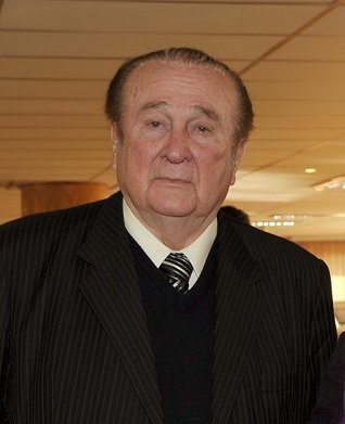 The Doctor Nicolás Leoz, President of South American Football Confederation, since 1986.